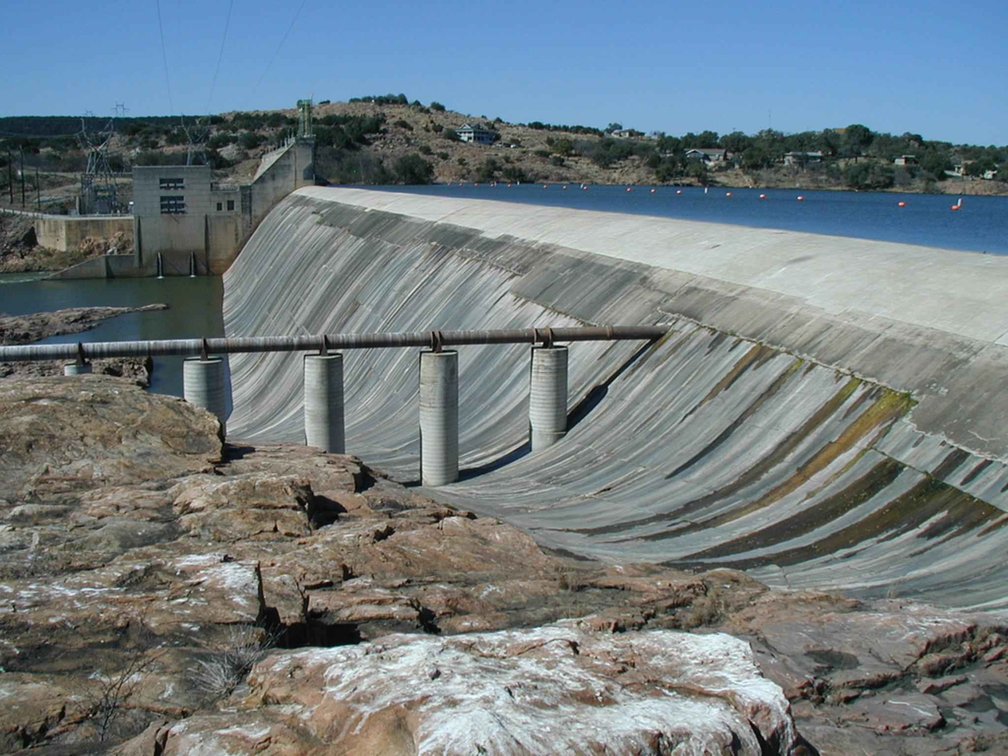 Image title: Main water pipeline Image from Public domain images website